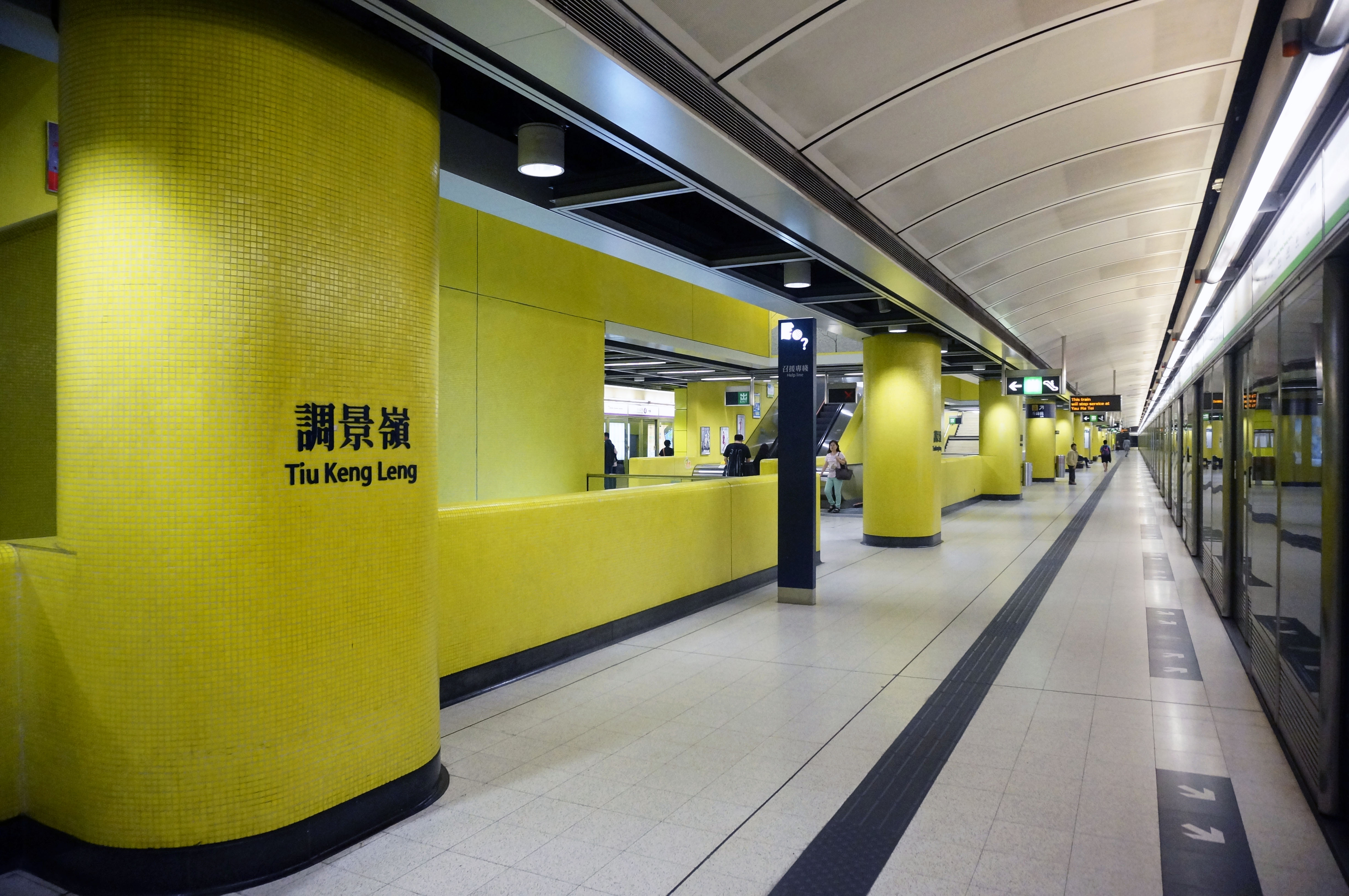 MTR Tiu Keng Leng station Platform 2